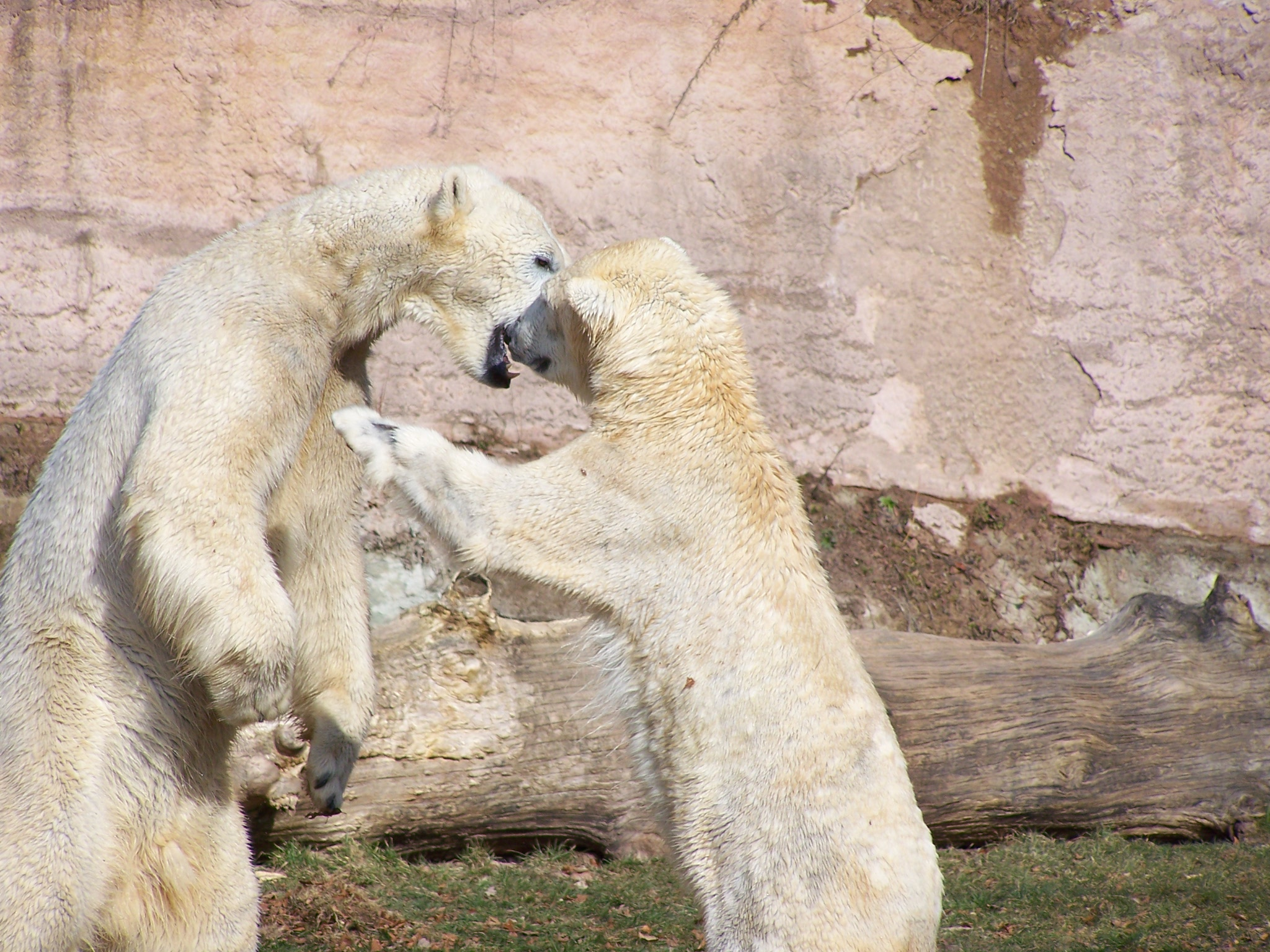 Flocke's parents: Polar bears Felix und Vera in the Aquapark of Tiergarten Nürnberg, Nuremberg, Germany.